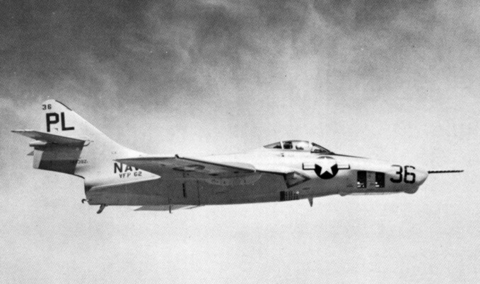 A U.S. Navy Grumman F9F-8P Cougar of Photographic Reconnaissance Squadron VFP-62 Det.34 "Fighting Photos" in flight. VFP-62 Det.34 was assigned to Air Task Group 182 (ATG-182) aboard the aircraft carrier USS Lake Champlain (CVA-39) for a deployment to the Mediterranean Sea from 21 January to 27 July 1957.